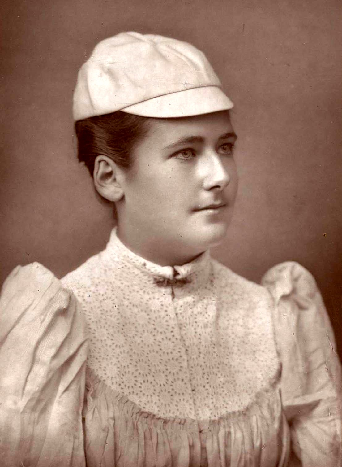 Lottie Dod at the age of 20